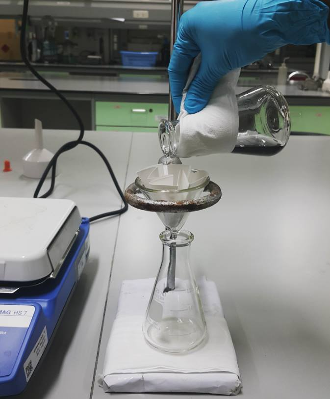 This image shows the process of Hot Filtration performed for the separation of solids form a hot solution.